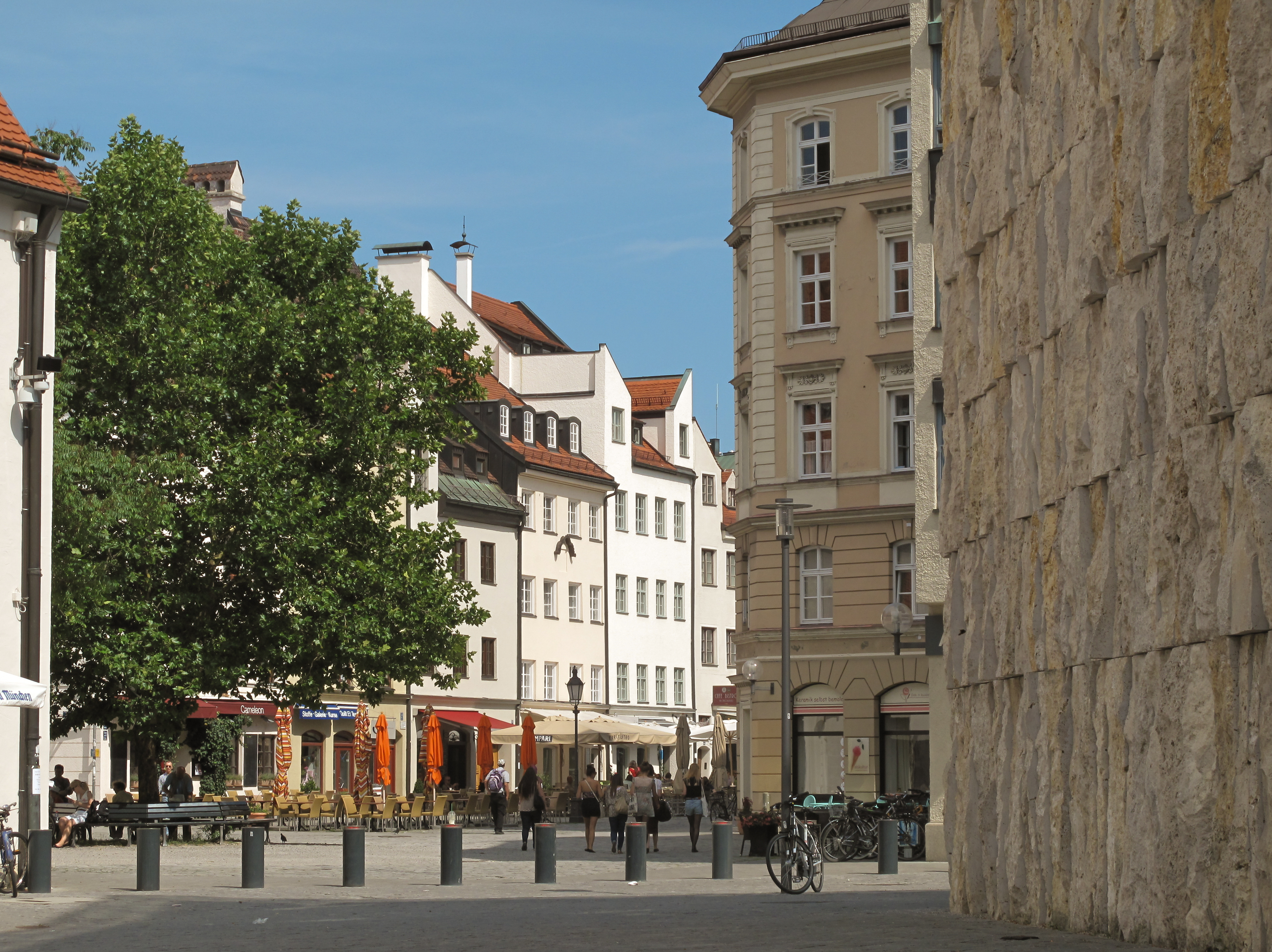 München, vbiew to a street: der Sebastiansplatz